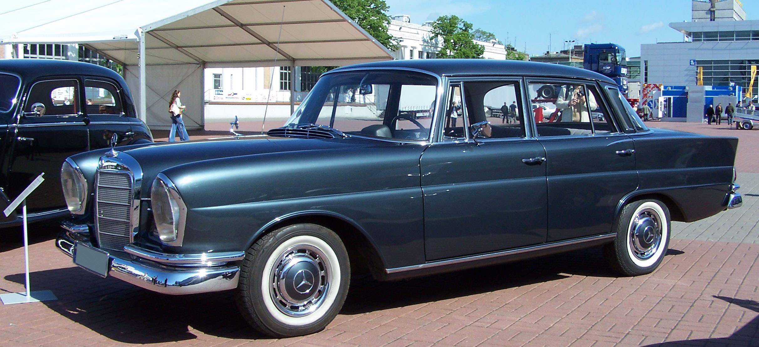 I edited the original image for use on my ad-supported automotive website (Ate Up With Motor), obscuring the numberplate and cleaning up some sun reflections. This is the edited version.